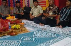 photo